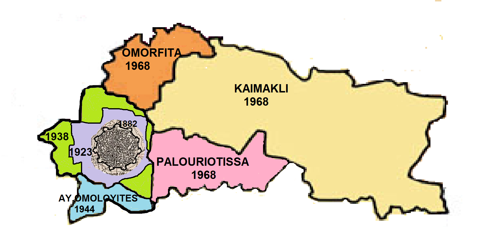 Map showing the area of Nicosia municipality with extensions from 1882-1968